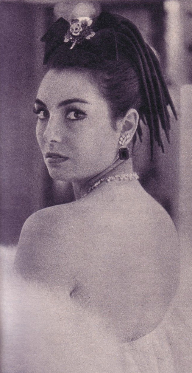 Italian actress